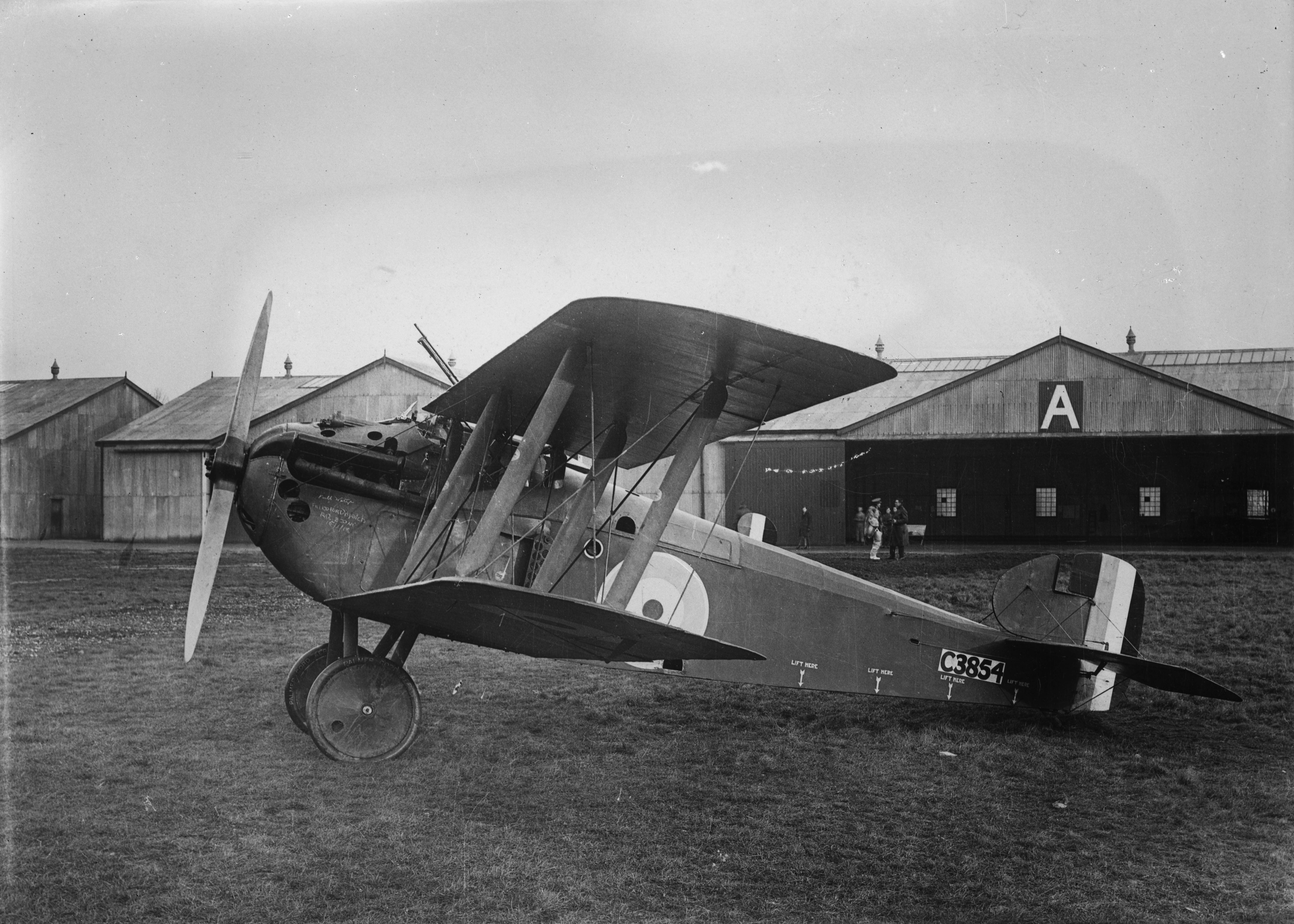 Sopwith Dolphin. Training slide for pilots and mechanics. From the Robert McKenzie fonds, PR1991.0305/15.